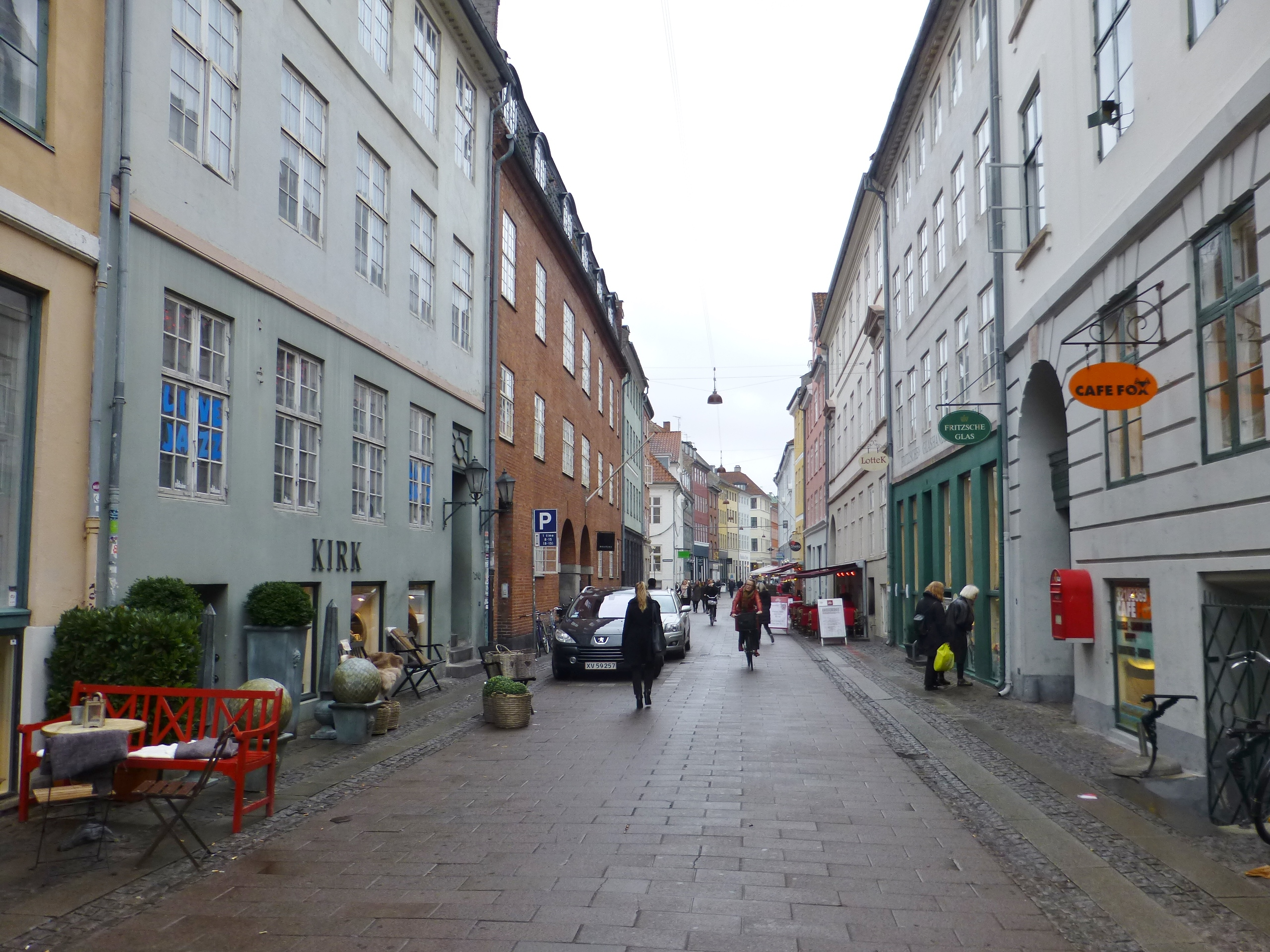 The street Kompagnistræde in Indre By in Copenhagen.